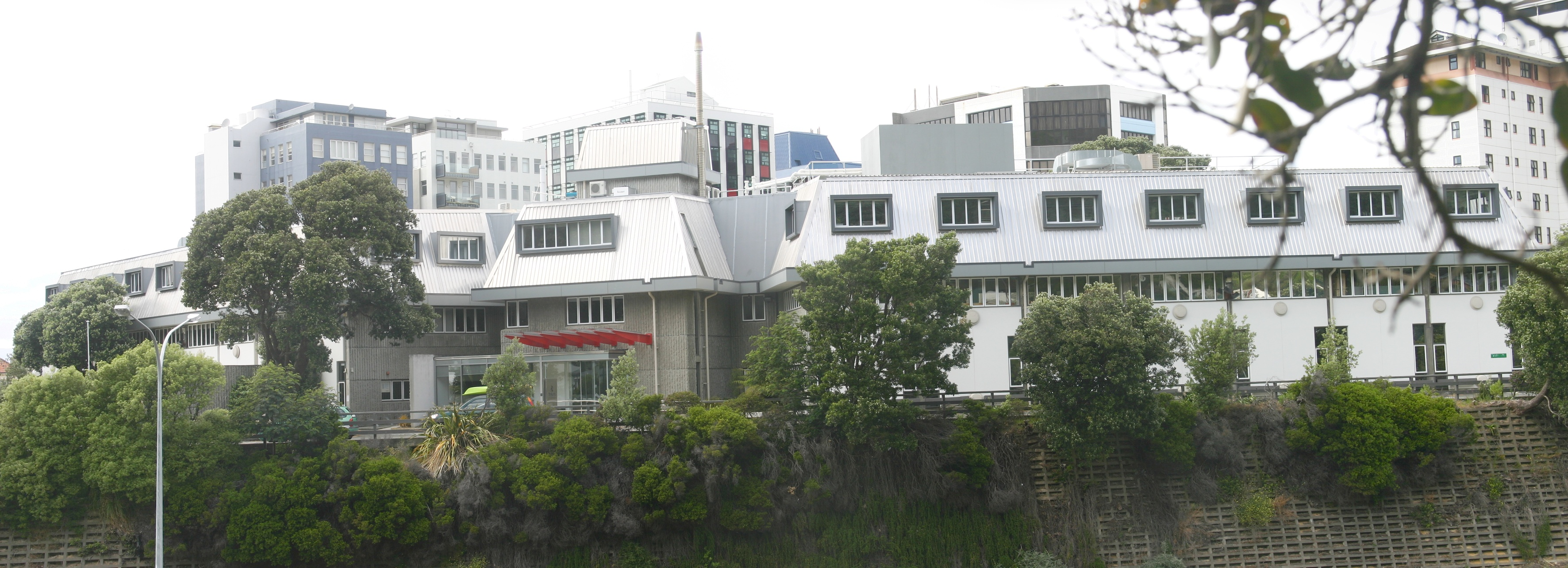 Correspondence School. Wellington, New Zealand. Panorama of three images stitched together with Hugin